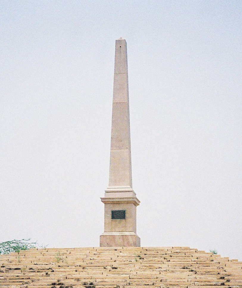 Obelisk erected at Coronation Park at exact location where King George V held his Coronation Durbar in 1911 in Delhi